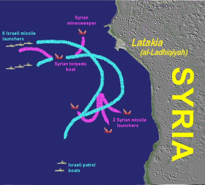 Map of the Battle of Latakia, a small but revolutionary naval battle of the Yom Kippur War, fought on 7 October 1973, between Israel and Syria.